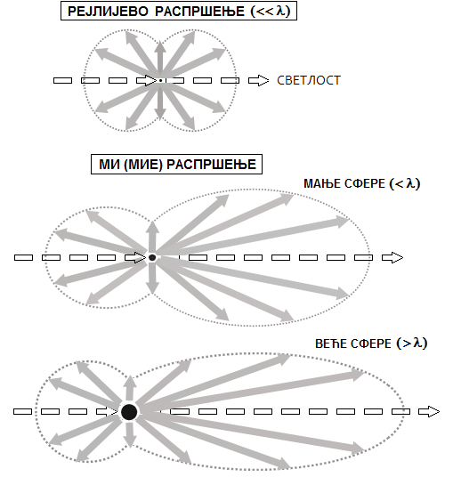 РАСПРШЕЊЕ СВЕТЛОСТИ